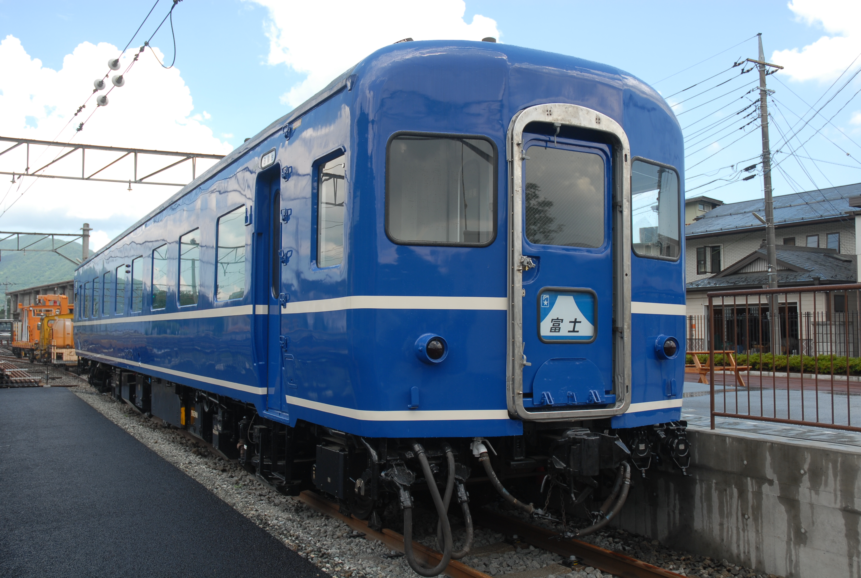 Preserved 14 series sleeping car SuHaNeFu 14-20 at the "Blue Train Terrace" next to Shimoyoshida Station on the Fujikyu Line